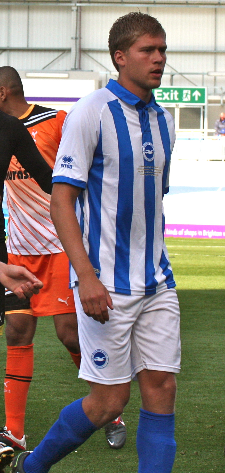 Brighton v Spurs Amex Opening 30/7/11